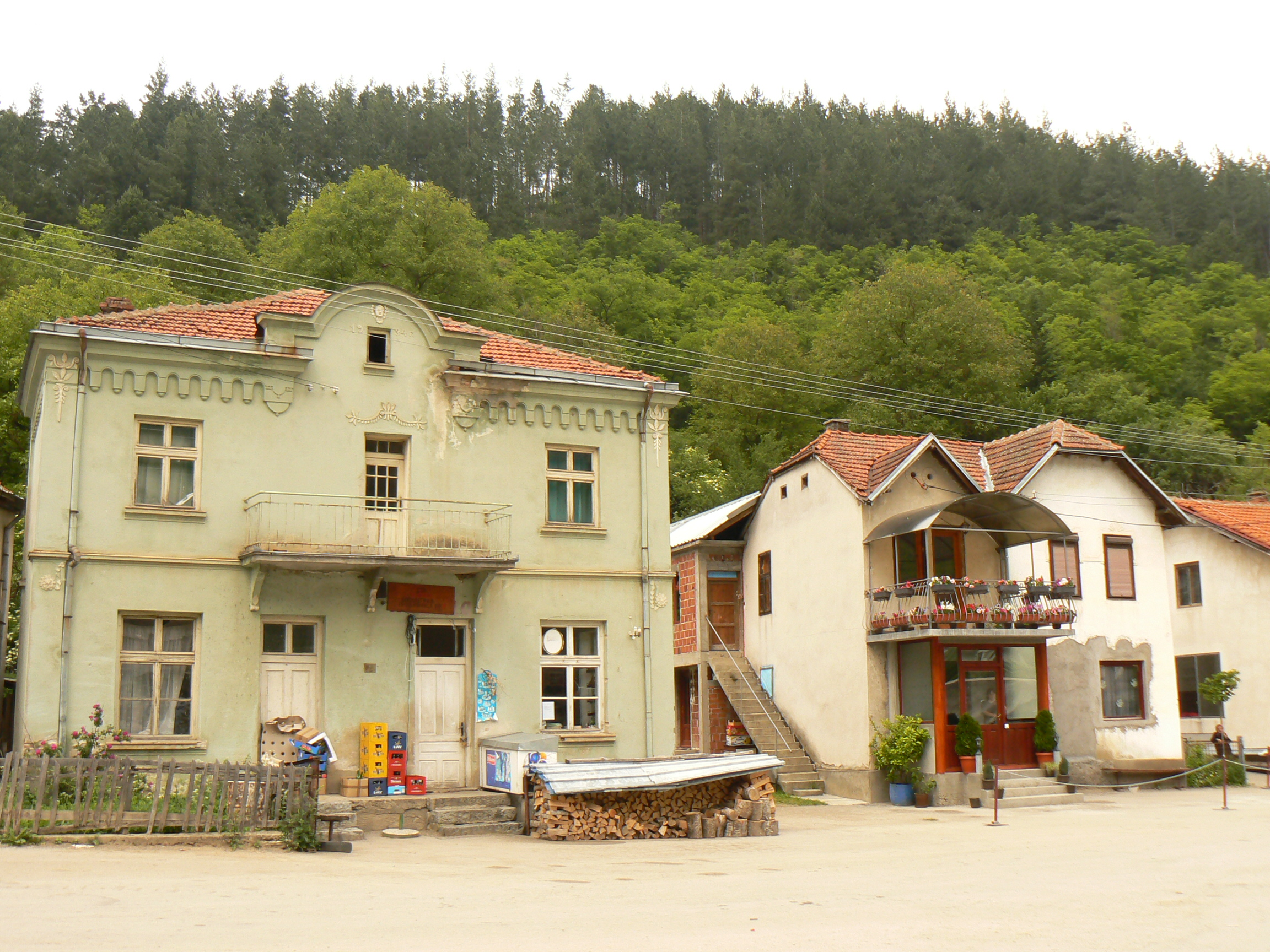 The square of village Gorna Lisina, Serbia